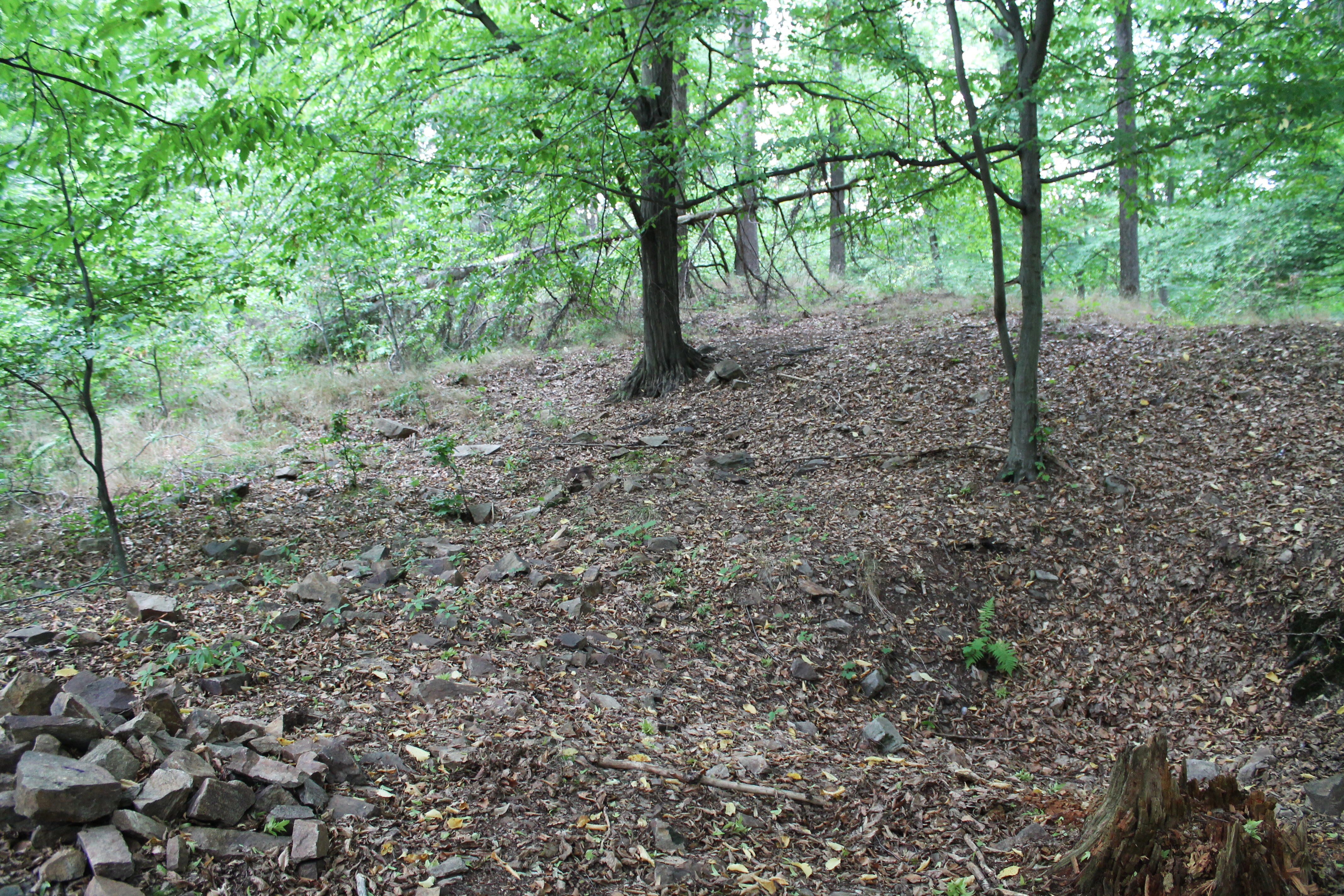 Remains of Osiky castle, Synalov, Brno-Country District, Czech Republic